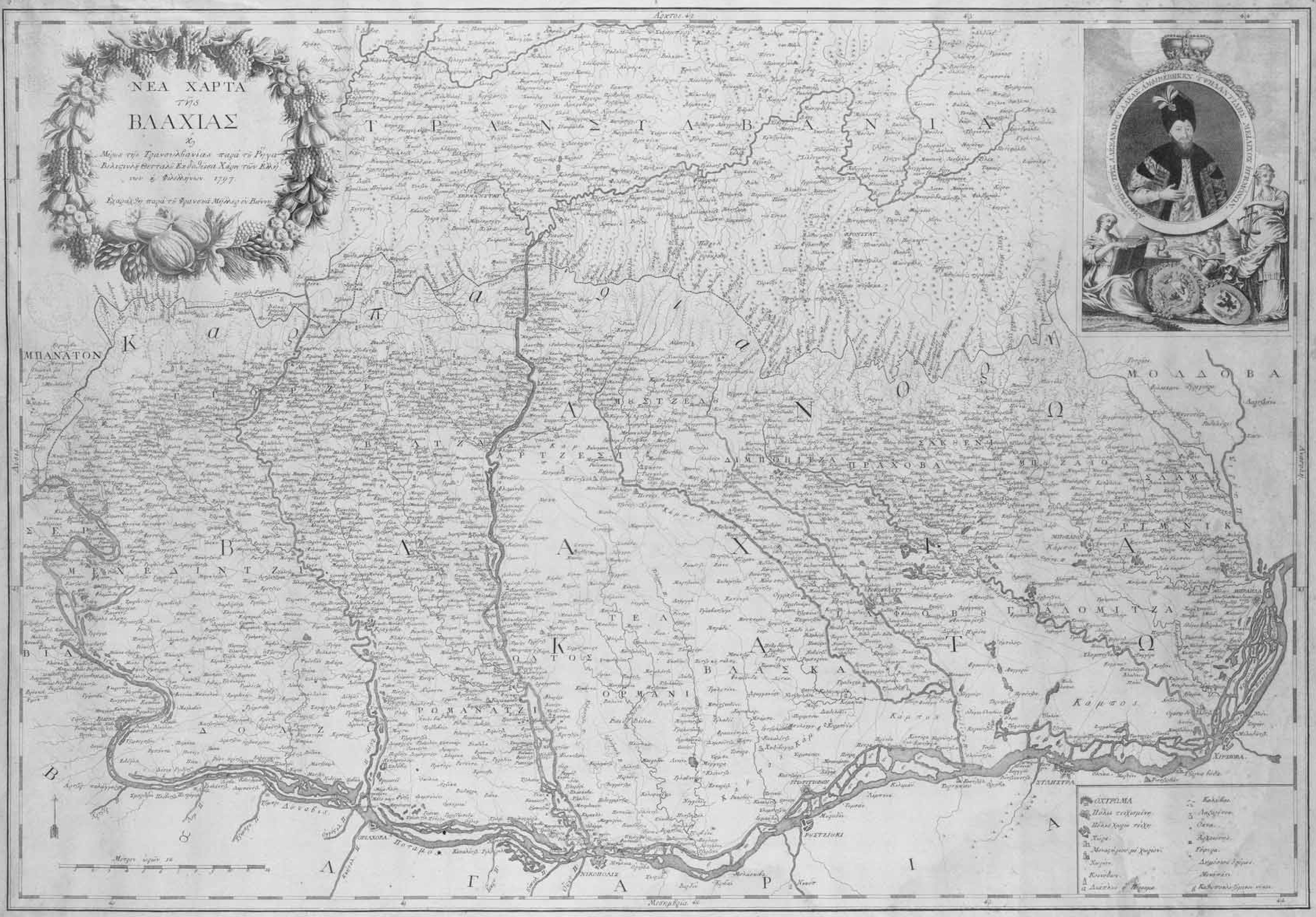 Nea Charta of Vlachia and part of Transylvania, Rigas Velestinlis 1979, Vienna, engraving by Franz Müller